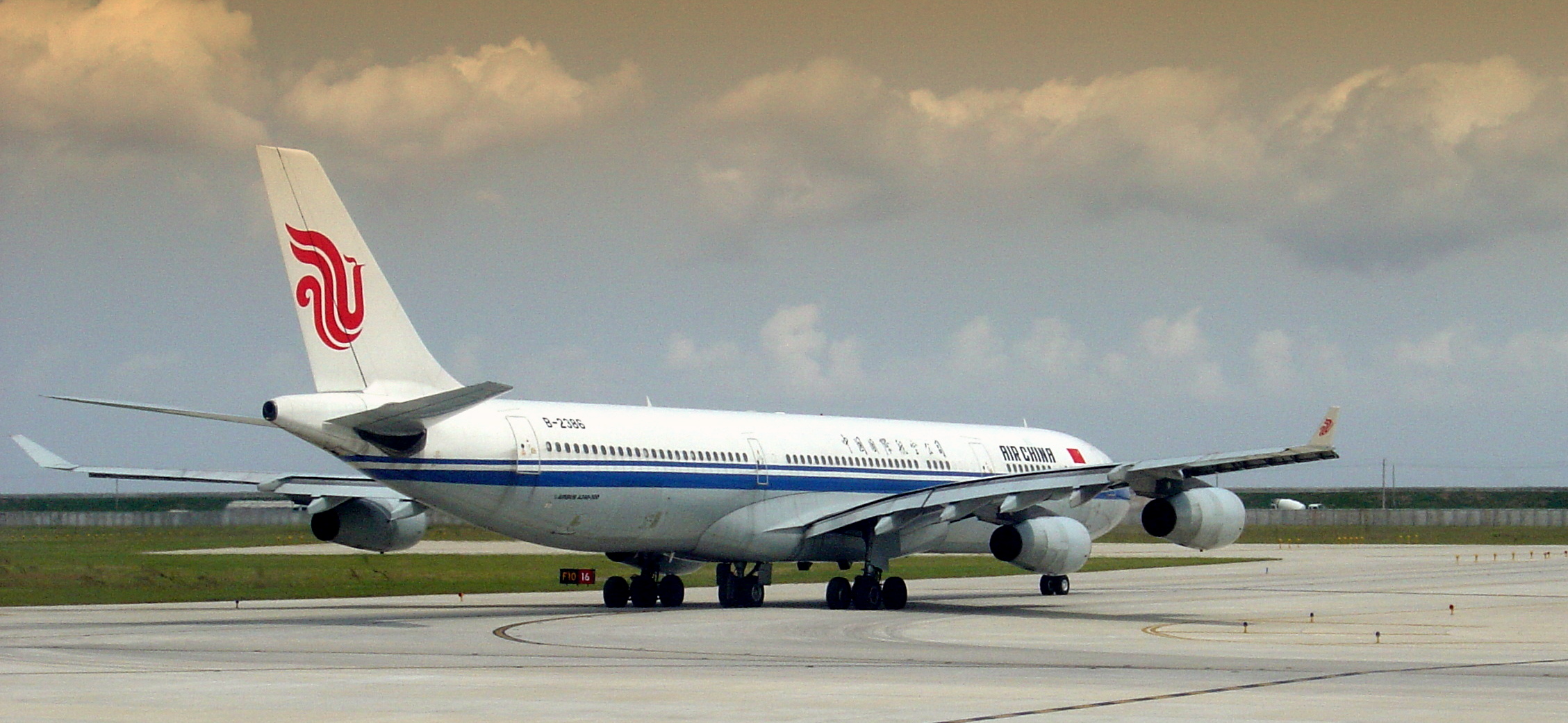 Air China A340 ready for take-off at Shanghai Pudong International